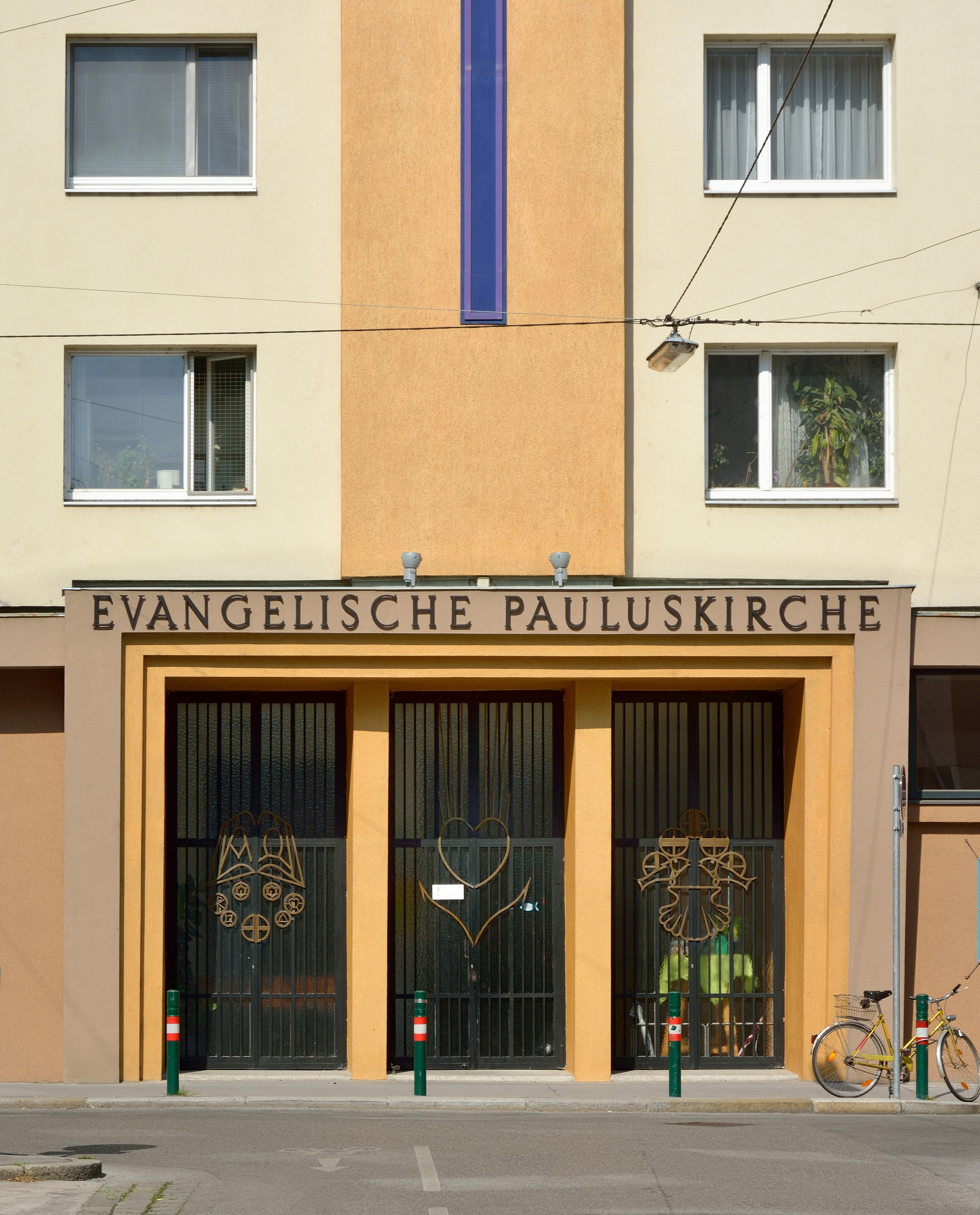 Protestant church Pauluskirche, portal, Sebastianplatz 4, 3rd district of Vienna